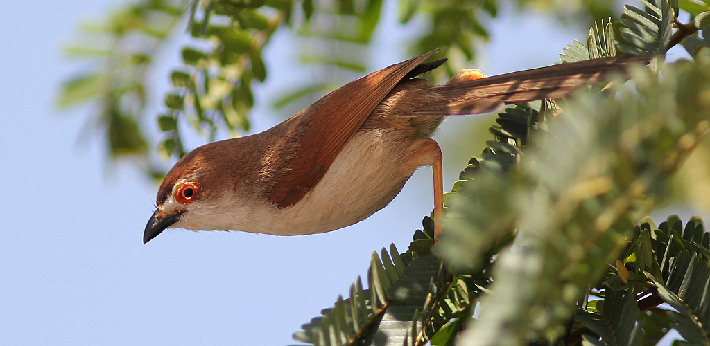 Found in open grass and scrub in south Asia.